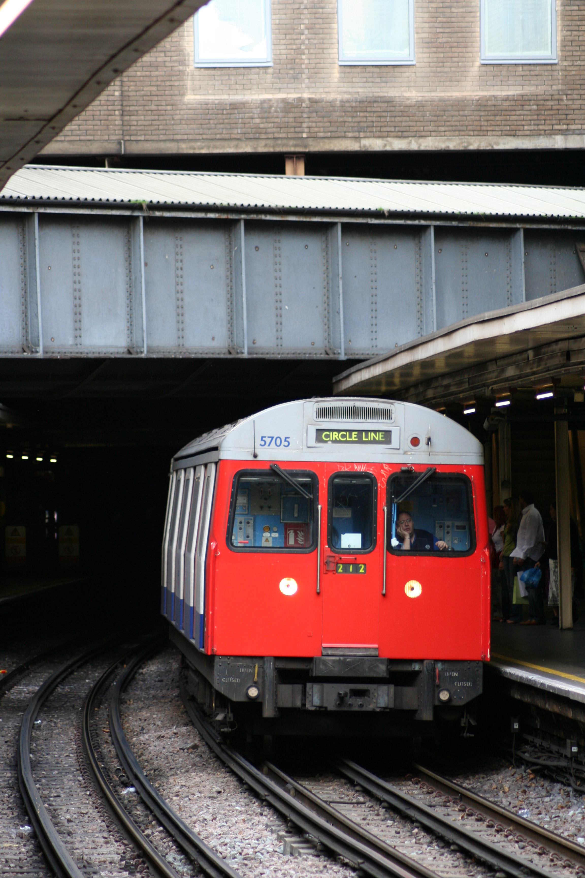 The River Westbourne above Sloane Square Underground Station, London